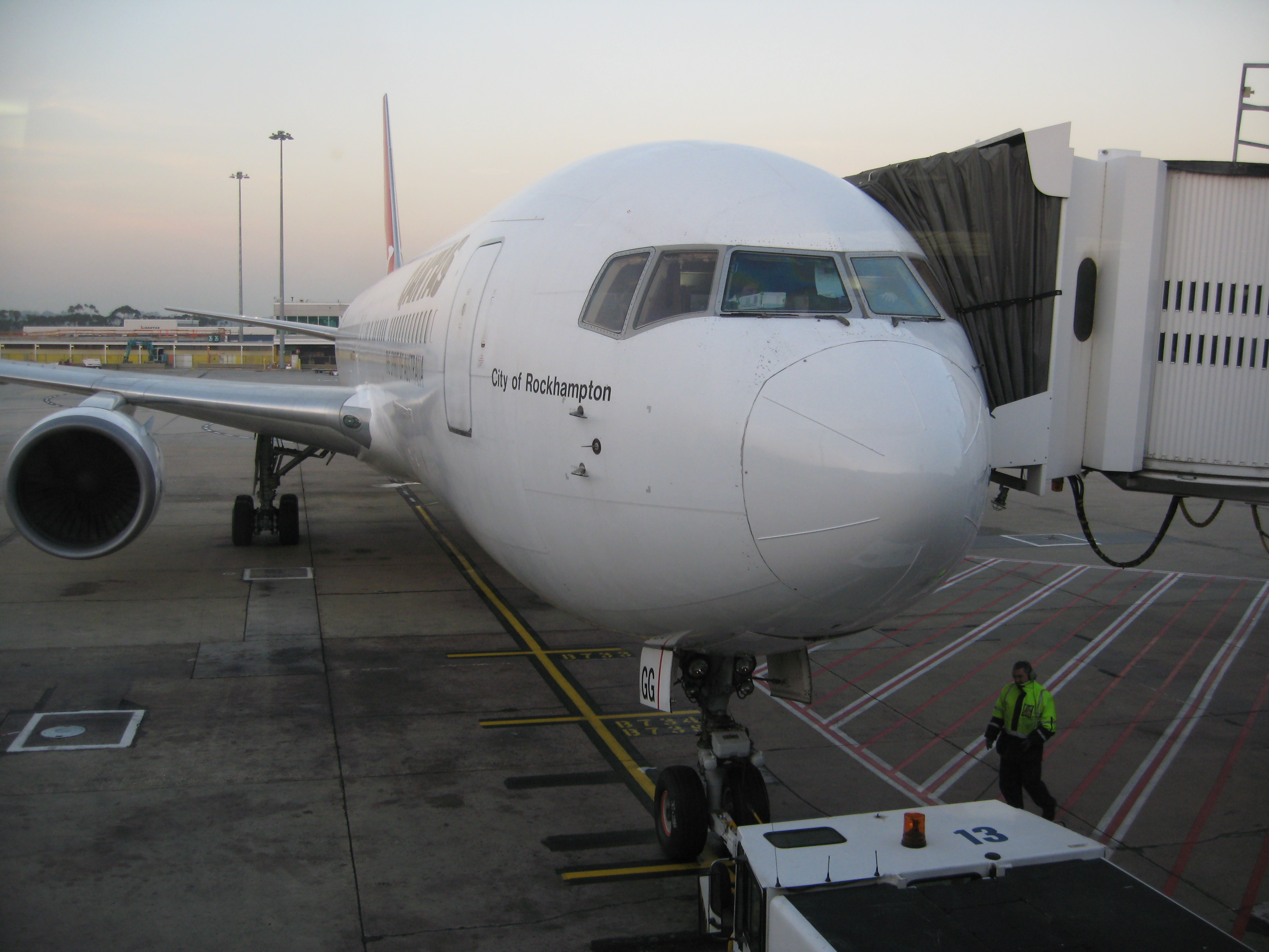 Qantas plane at the gate at Melbourne airport domestic terminal.